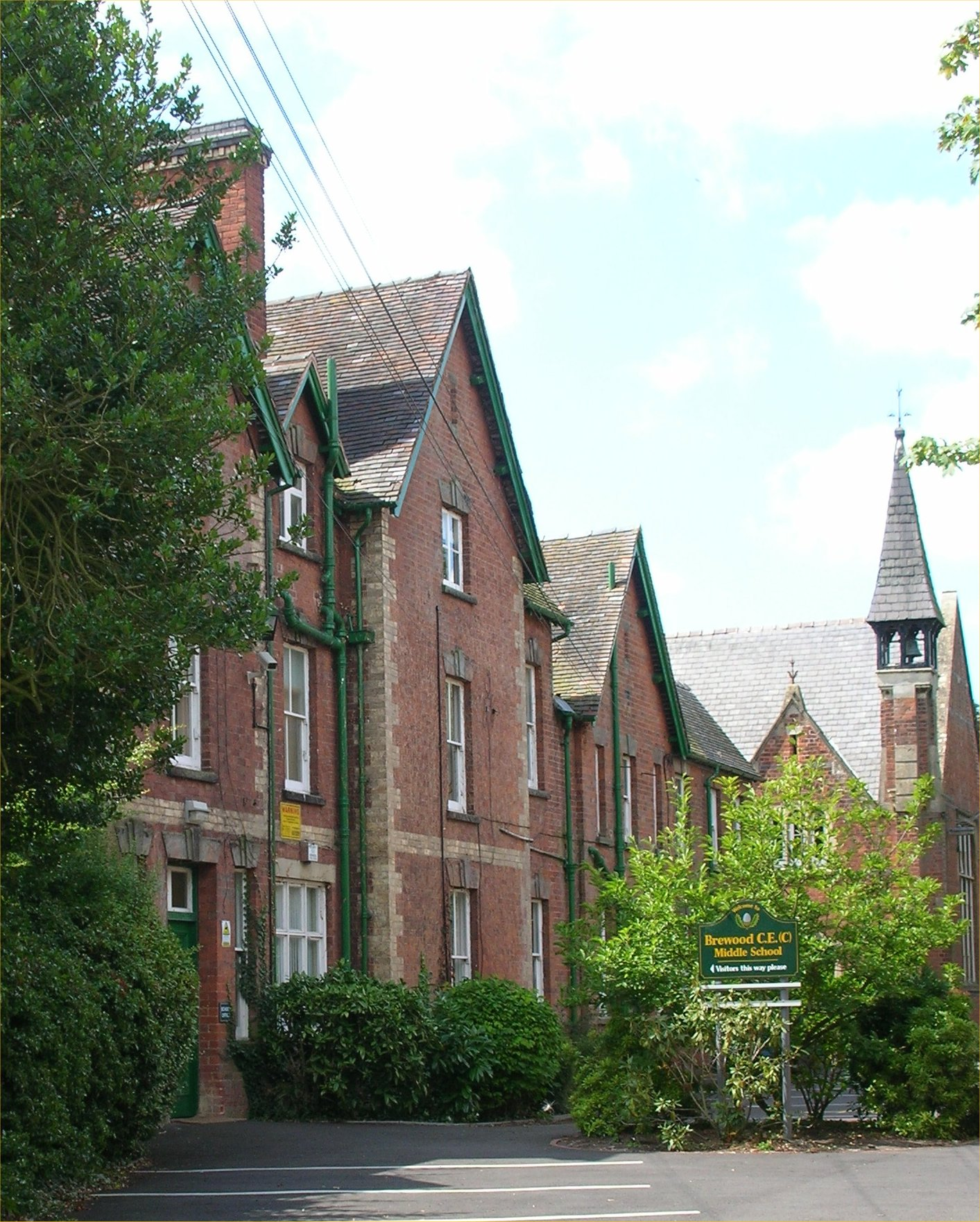 Brewood Grammar School, Brewood, Staffordshire, England. Since 1977 a middle school. Photographed by me, 7 August 2006. Oosoom